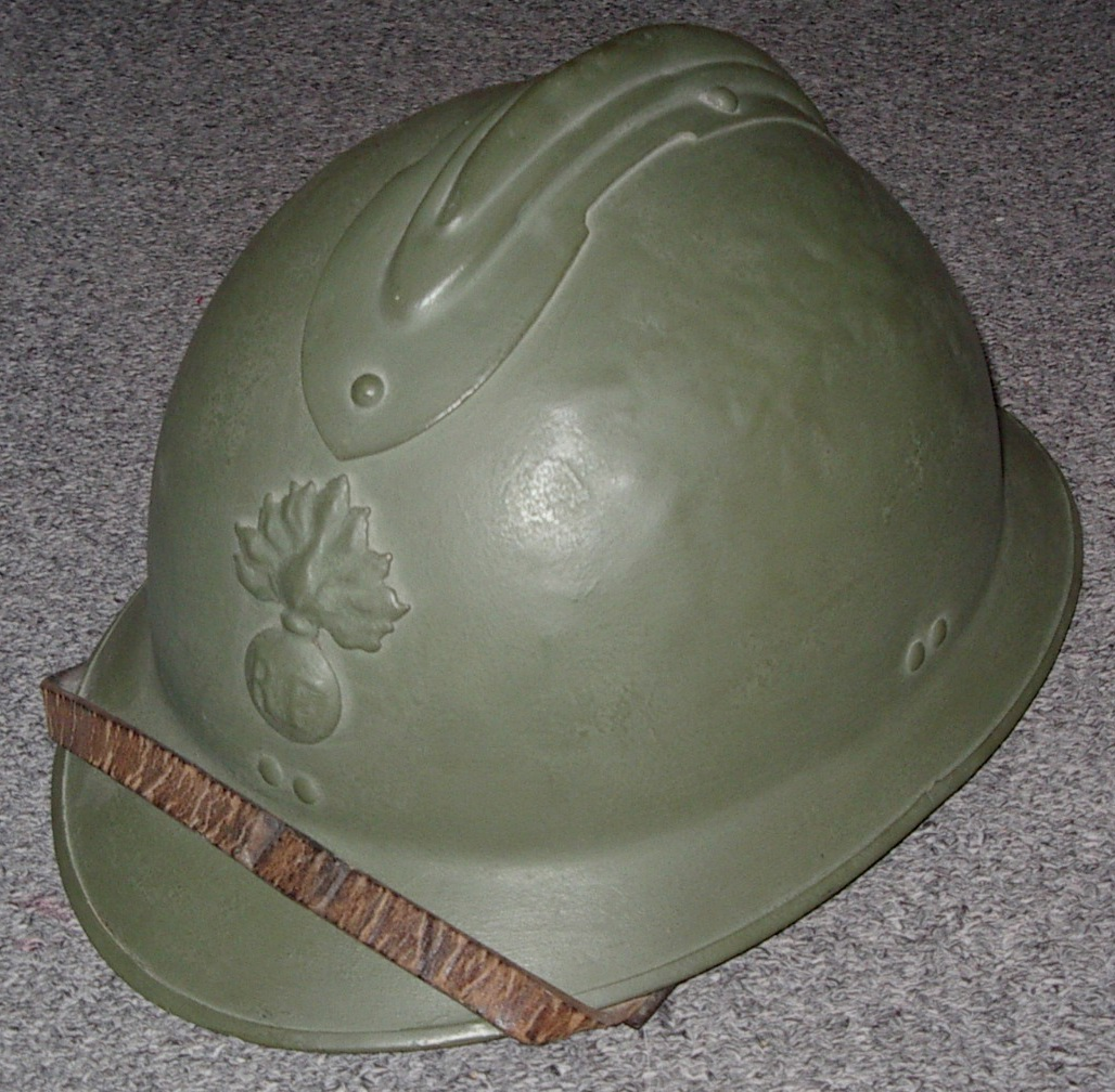 2nd World War French "Adrian" helmet (modèle 1926) Photo by Rémi Stosskopf